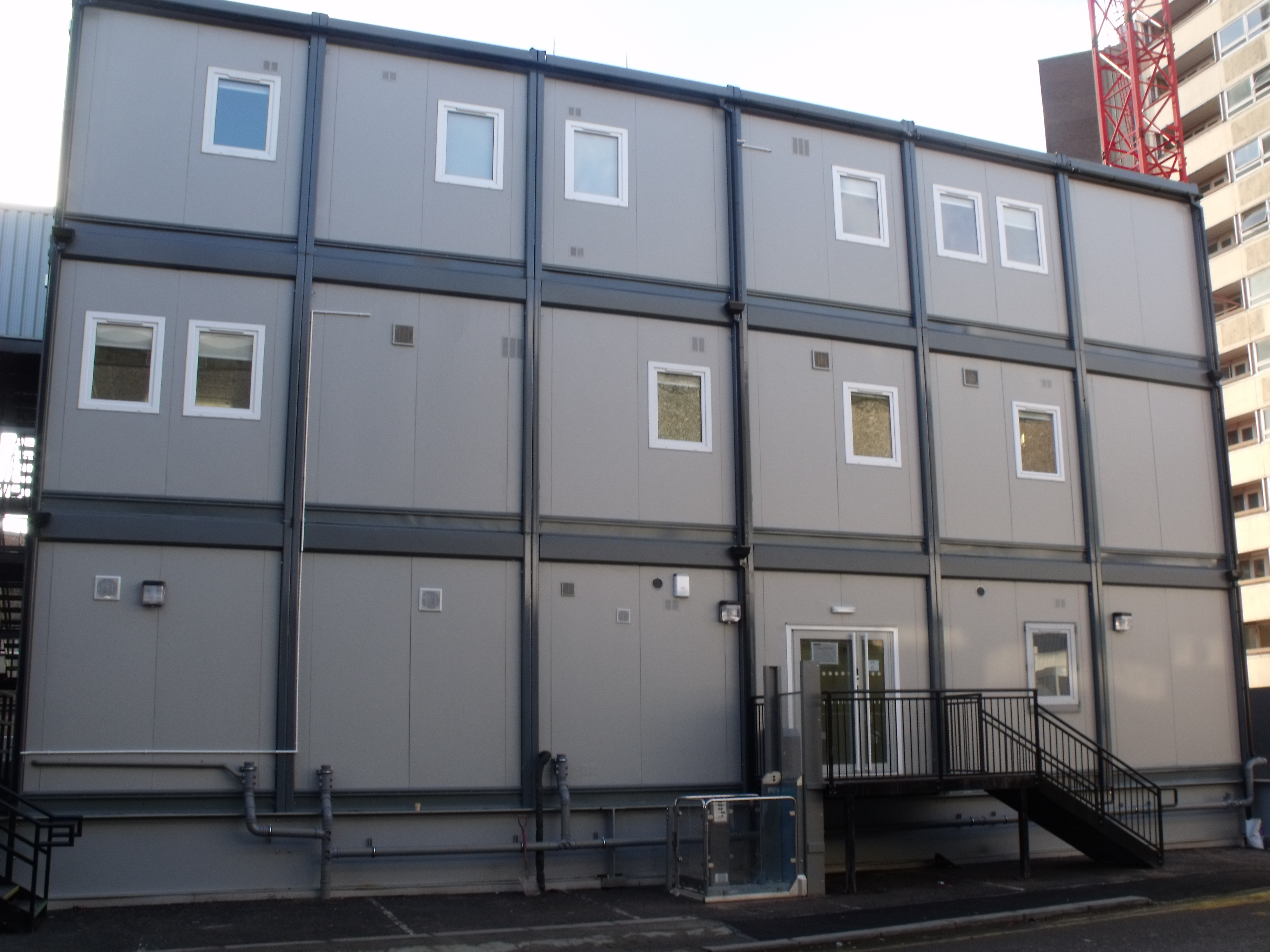 New Street Station updates January 2011. Portacabins on Queens Drive.